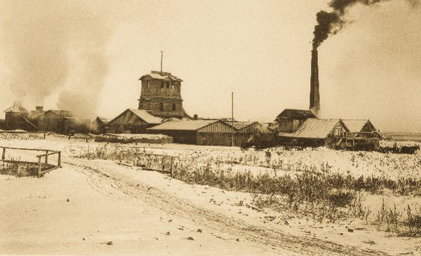 Mine "Dagmara". Lysychansk. 1872.